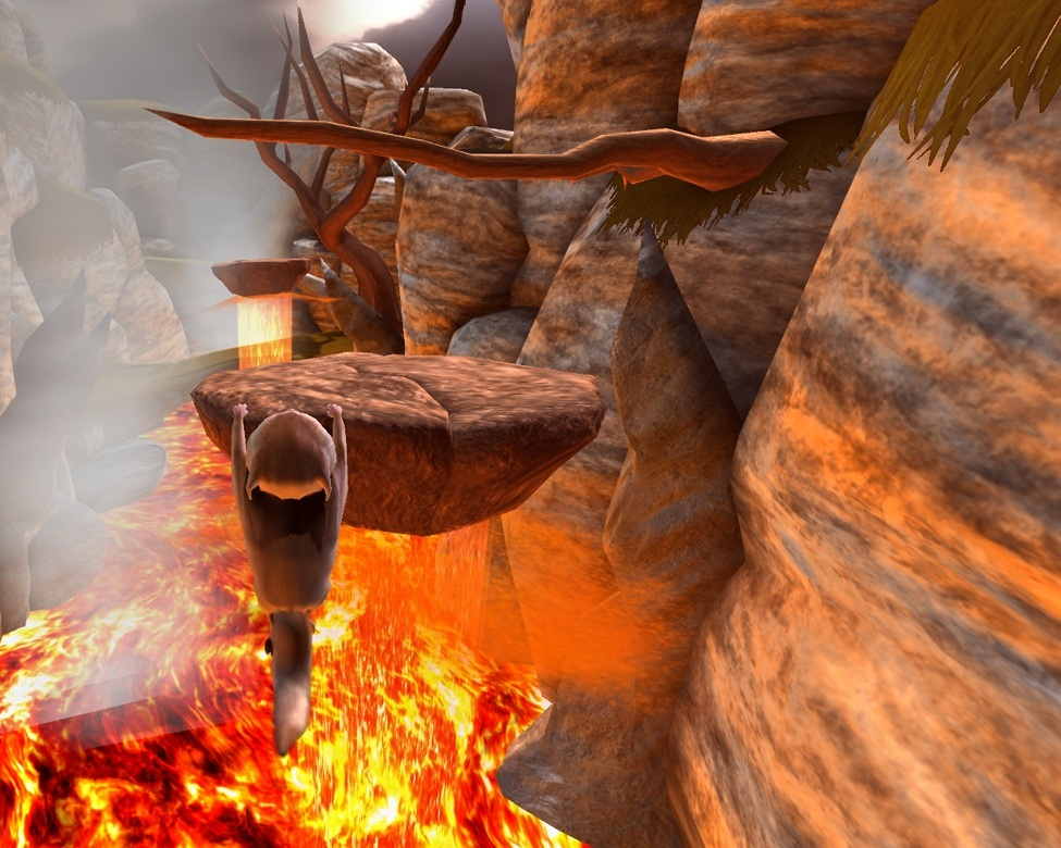 Screenshot of Yo Frankie!